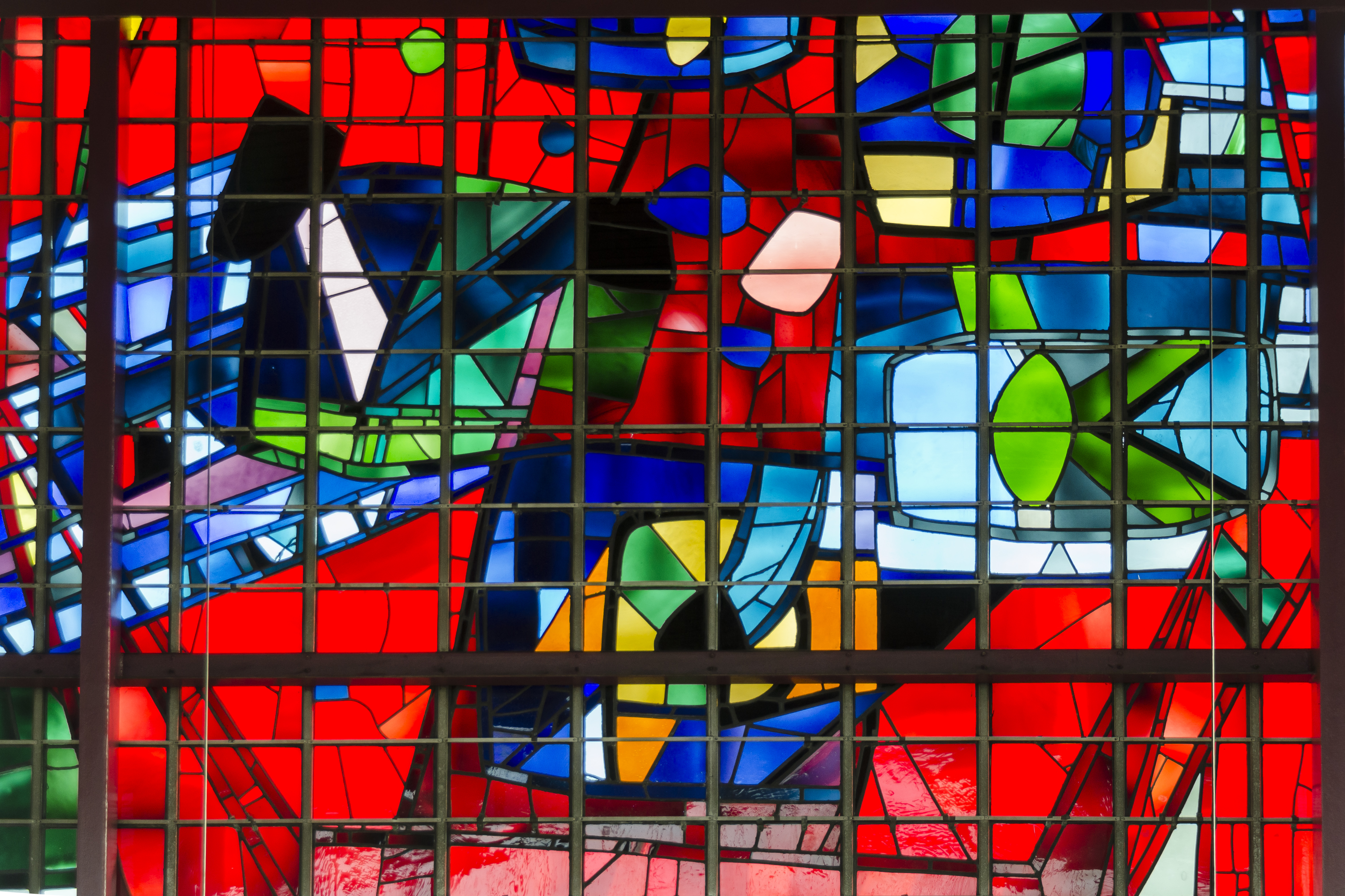 The church dates from 1962 and was designed by the architect Sam Scorer, after plans for a parish church were initiated in 1959. The church plan is based on a hexagram, and was designed that the congregation should be gathered round the altar during services. The church consists of a saddle like roof (hyperbolic paraboloid) which sweeps down to ground level north and south. There is clear glazing to the west, and to the east there is stained-glass by Keith New. The window, which is completely abstract, is based on a series of hexagonal shapes which echo the shape of the church in plan. The theme of the window is "Revelation of God's plan for Man's redemption". The building is a major contribution to church architecture of this period, combining innovative architectural thinking with advanced liturgical planning, and a complete set of original fittings, including artist-designed stained glass and metalwork of high quality.